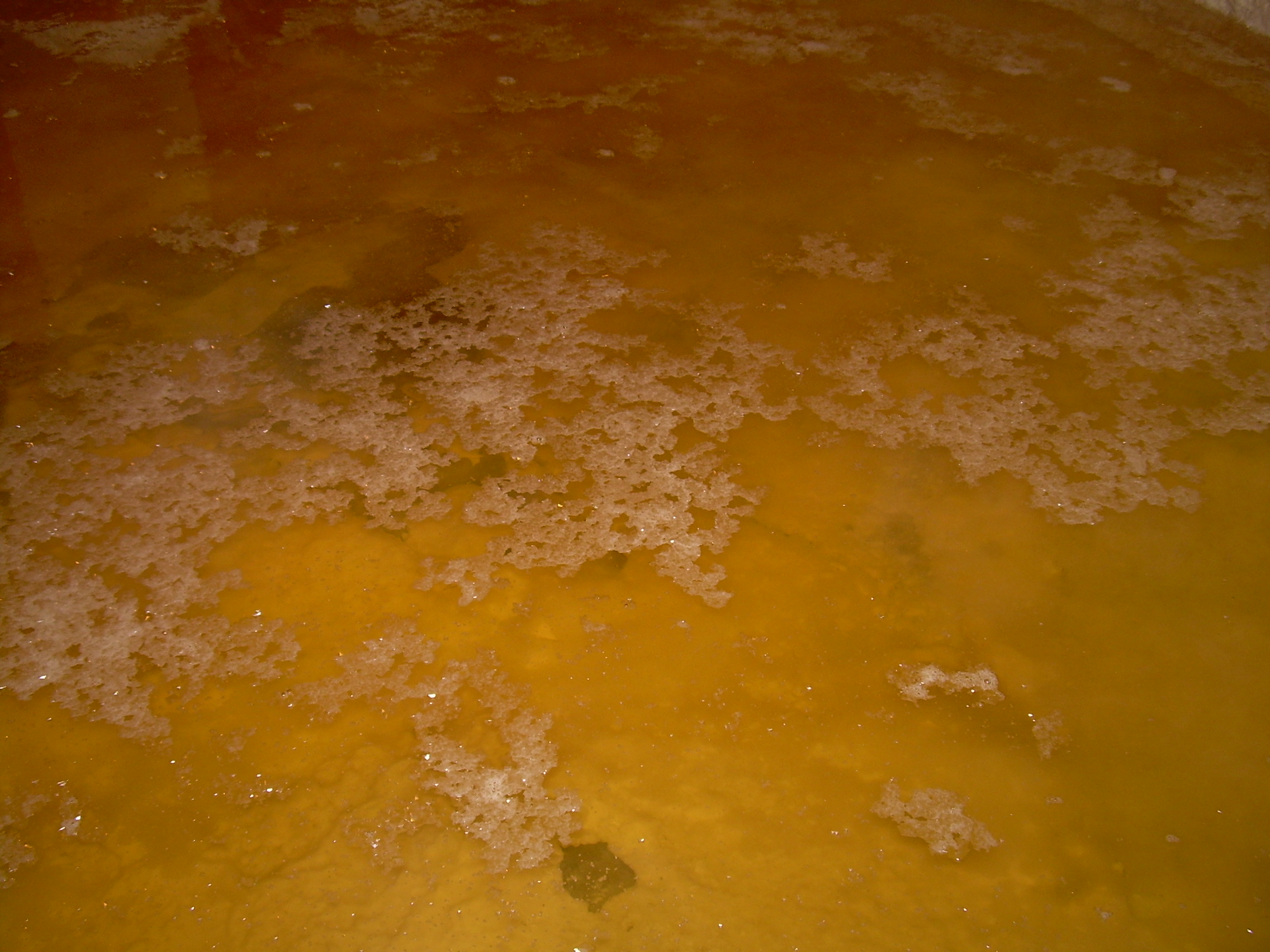 Salt crystals in an evaporation pond, Læsø, Denmark